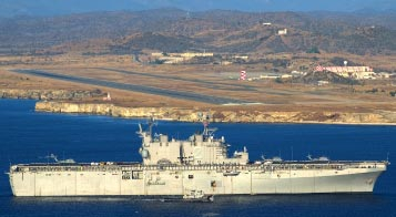 Ship visit -- The USS Saipan, homeported in Norfolk, in support of Operation New Horizons 2005, stopped in Guantánamo Bay for several days in early February during a two-month deployment to the Caribbean. Operation New Horizons took place in Haiti, where U.S. military forces built schools, drilled wells, and provided medical assistance to people affected by the 2004 hurricane season. The ship, which has a crew of more than 1,000, is 820 feet long, and 106 fee wide. Speed is approximately 24 knots. The ship can also host a Marine detachment of almost 2,000.